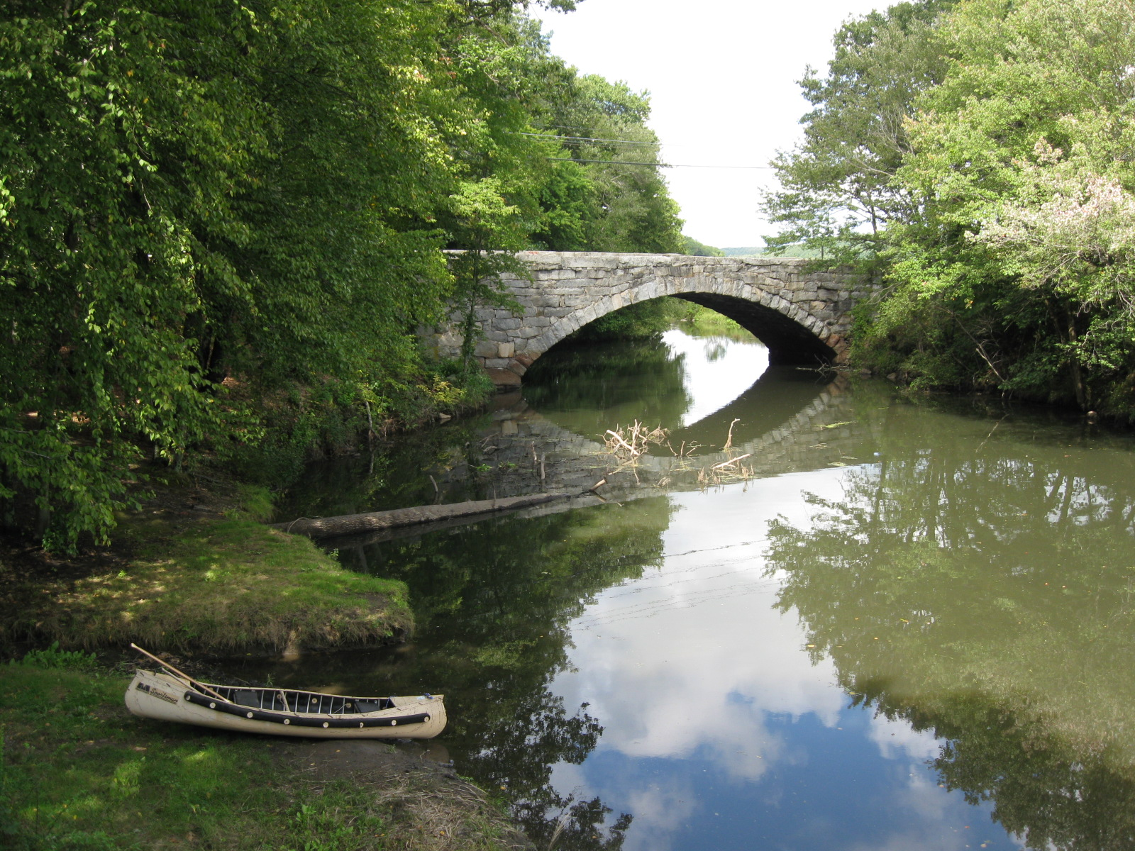 A view of a bridge over the Blackstone River in the Blackstone Valley of Massachusetts.